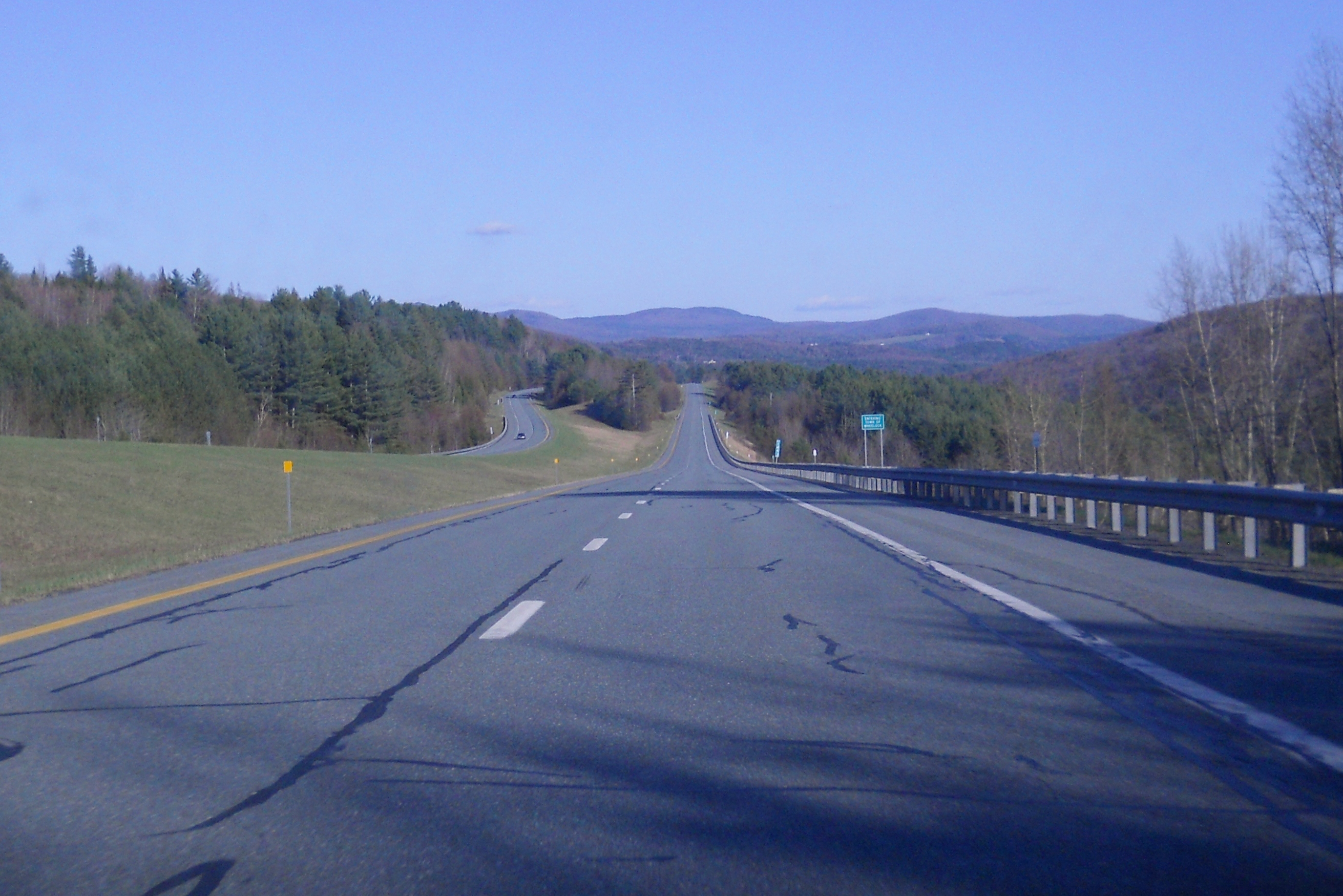 Interstate 91 southbound in Wheelock, Vermont. The green sign on the right says "Entering town of Wheelock."